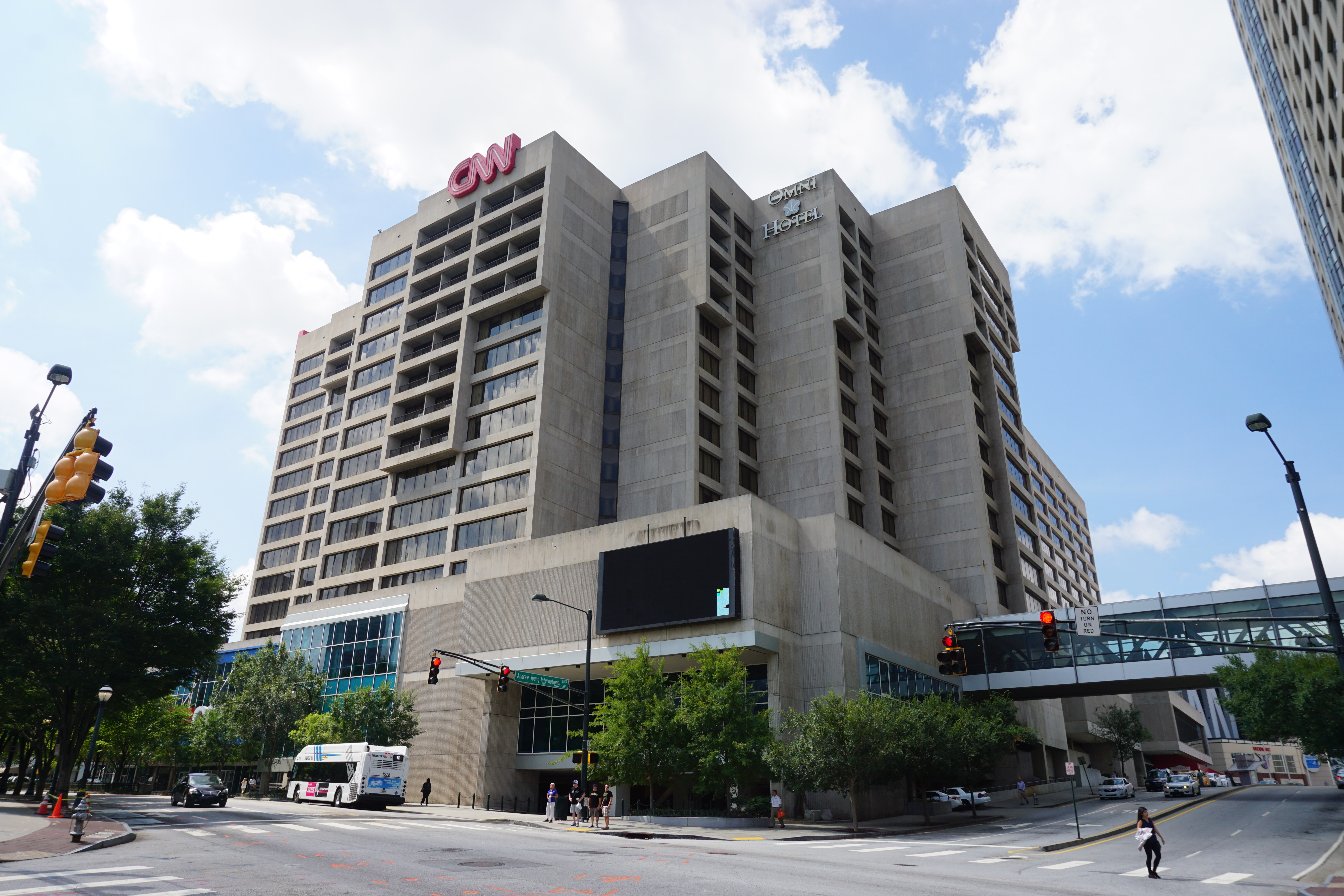 The CNN Center in Atlanta, Georgia (United States).